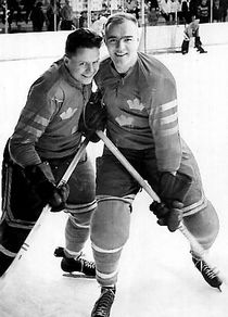 Press photo of Hans Mild (right) at the 1961 World Ice Hockey Championships along with his friend Gösta "Knivsta" Sandberg.